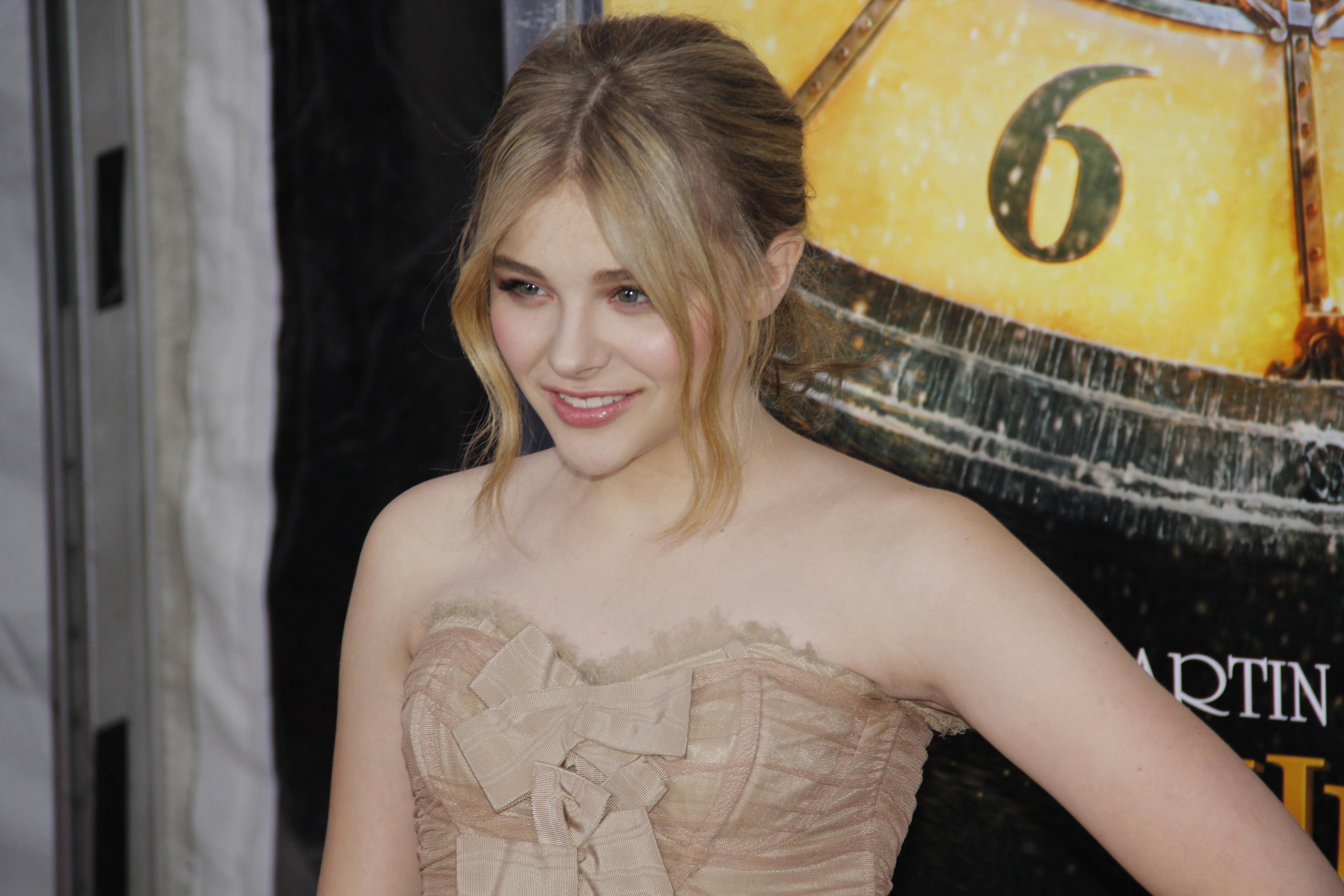 Hugo Premiere | Ziegfield Theatre, New York City | November 21st 2011